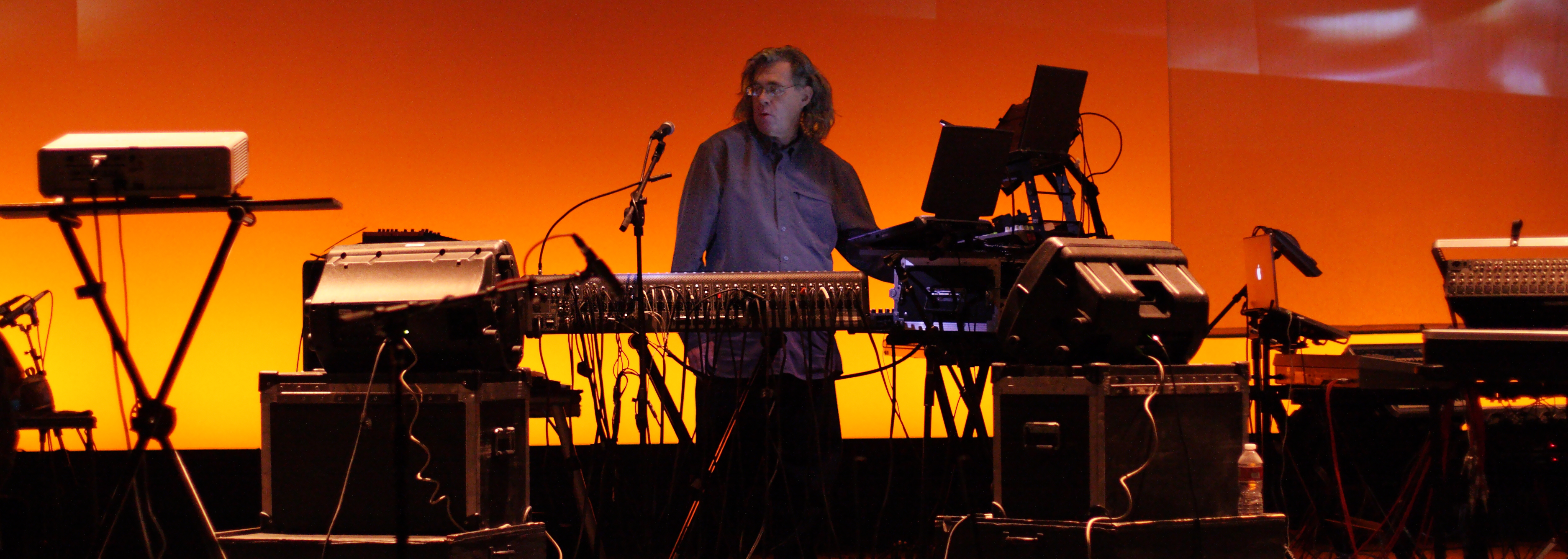 Steve Roach performing at SoundQuest Fest in October 2010. Photographed on a Canon EOS 40D.